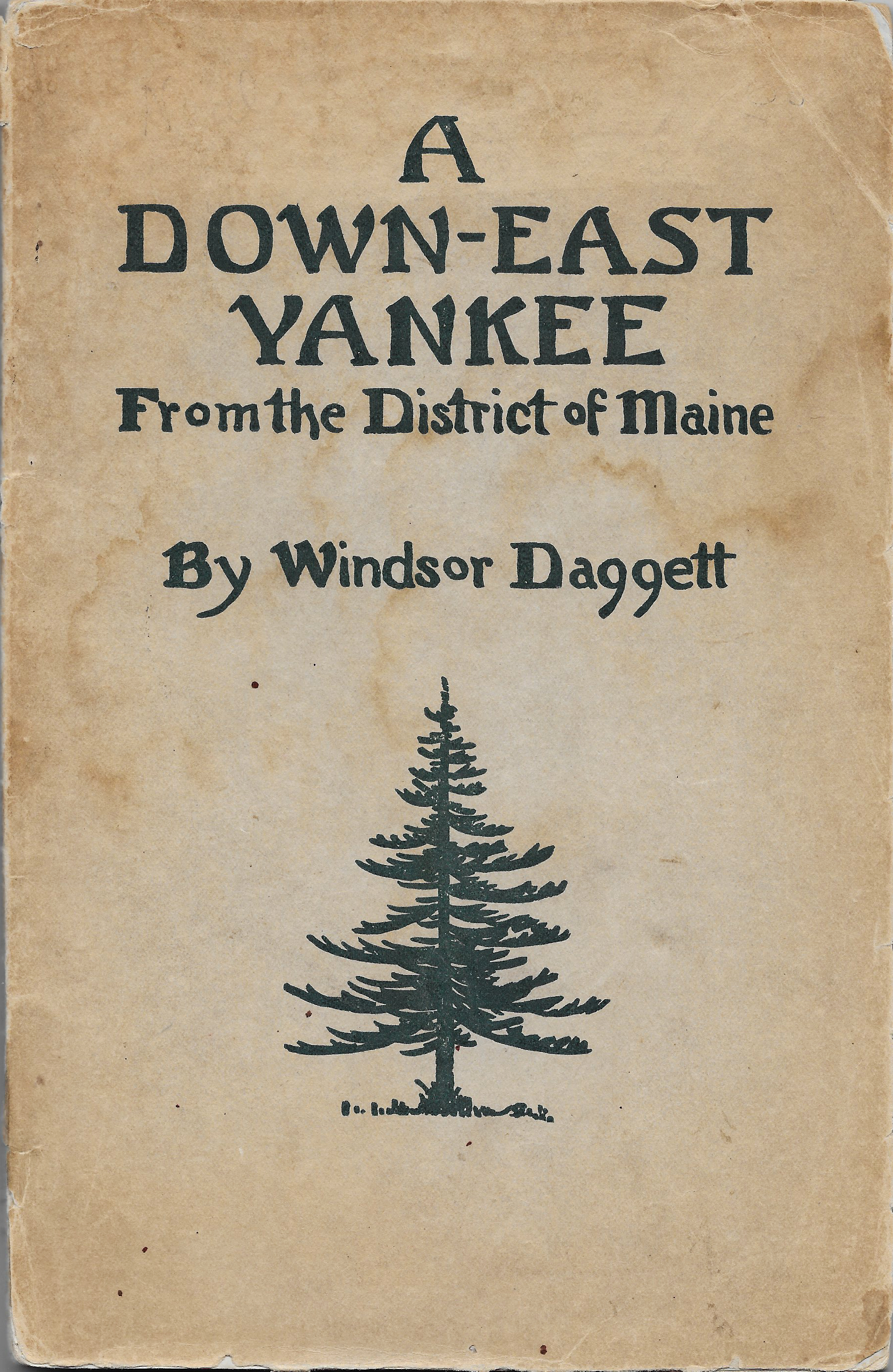 Cover of A Down-East Yankee from the District of Maine (1920) by Windsor Daggett, scanned from the original book